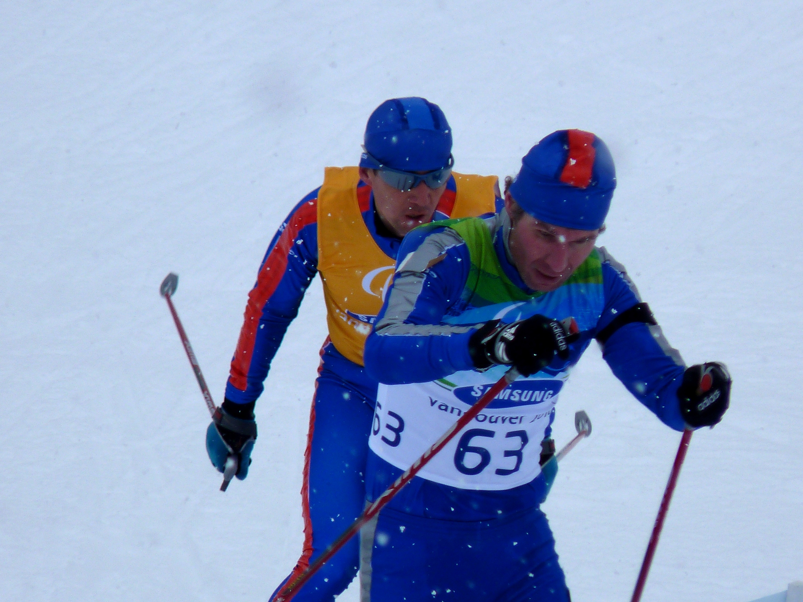 Irek Mannanov of Russia in qualification for the Biathlon Men's 3km Pursuit (Visually Impaired) guided by Salavat Gumerov (in the yellow shirt), at the Winter Paralympics 2010 in Vancouver, Canada.